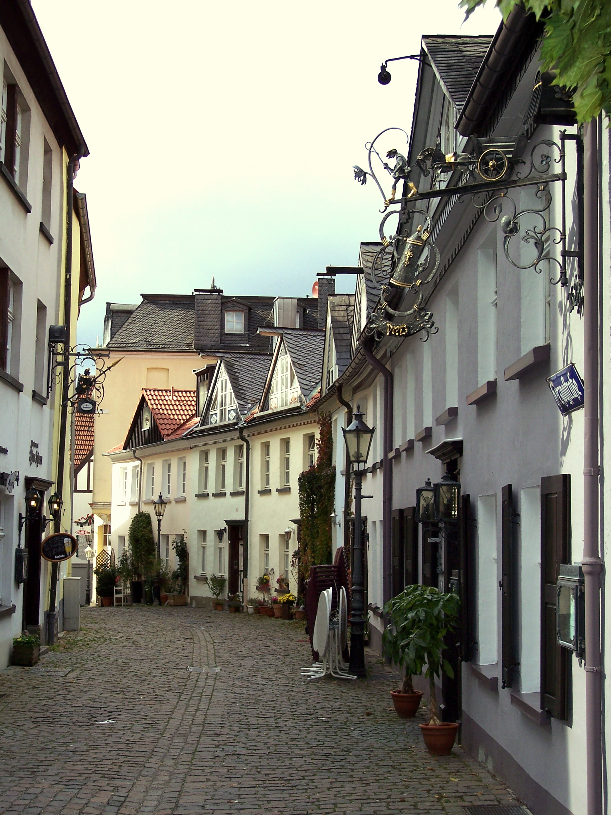 Typical buildings of the 18th century in the old town of Luedenscheid (Luisenstr.).